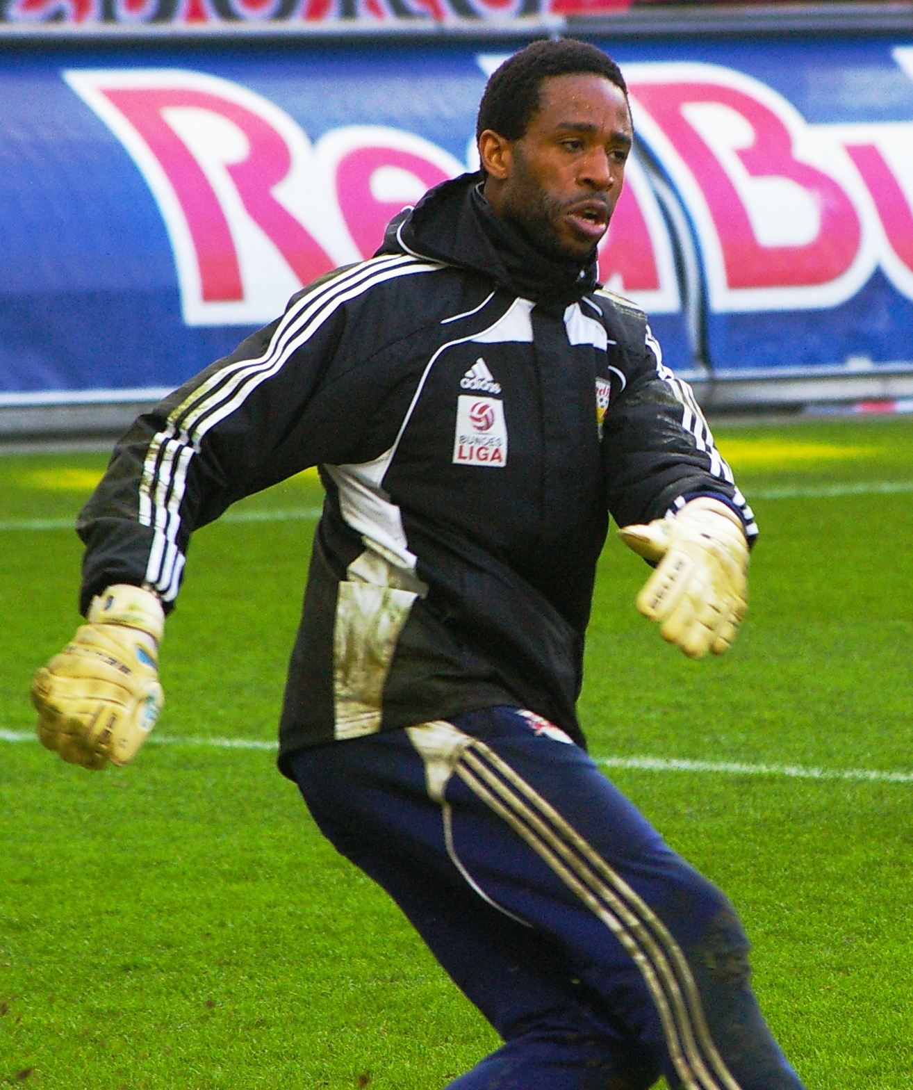 goalkeeper FC Salzburg